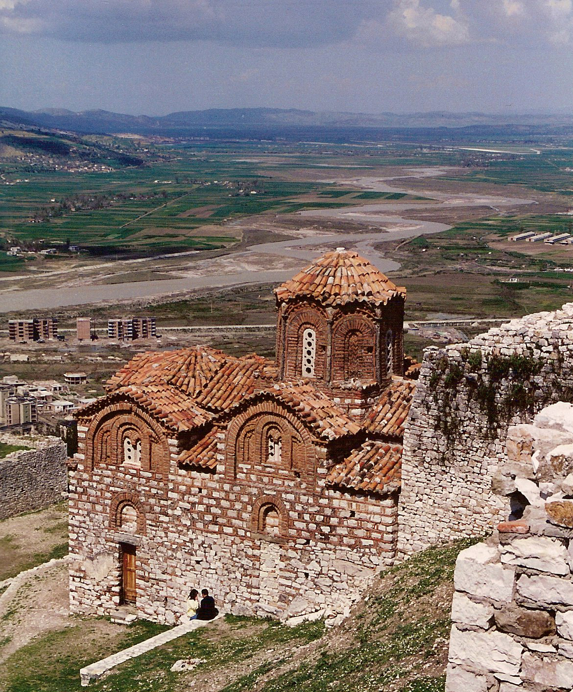 Looking North from the Castle of Berat into the Osum River valley